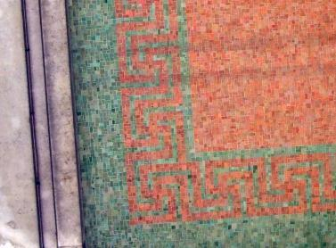 Ceiling mosaic on Haus der Kunst, Munich